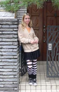 Swedish comics artist Åsa Ekström outside "her" manga studio, November 2006.